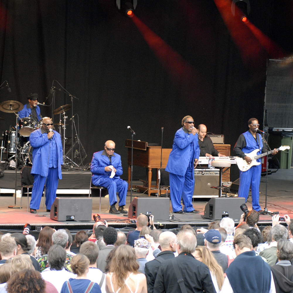 Blind Boys of Alabama performing at Stockholm JazzFest09